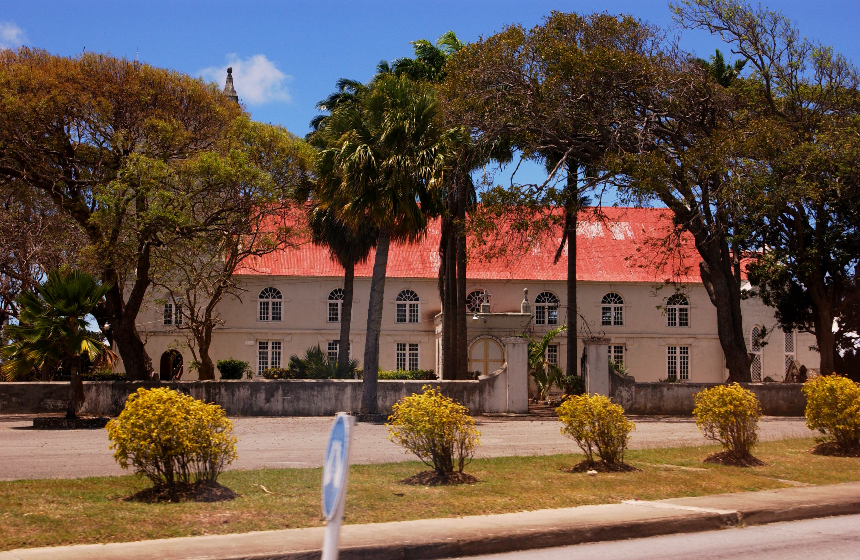 GEORGIAN, 1837 BUILT ON SITE OF FIRST CHURCH IN 1627